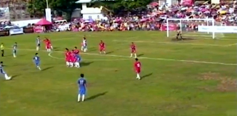 Central Philippine University International Football Team vs. Philippine Football Federation (AZKALS) in 2011.